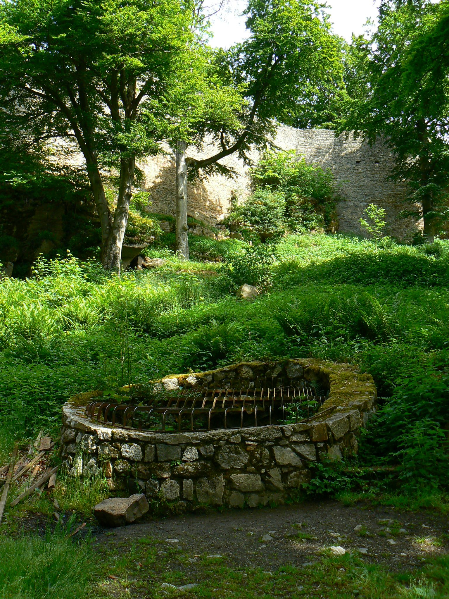 Choustník castle, Czech Republic - the well in the courtyard